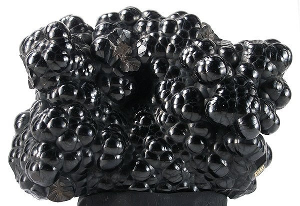 Goethite Locality: Rosengarten Mine, Vereinigte Henriette Mine, Niederschelden, Siegerland, North Rhine-Westphalia, Germany (Locality at ) Size: 10.8 x 8.1 x 4.7 cm. A beautiful, jet-black cluster of botryoidal goethite that almost completely drapes a core rock matrix. This is likely a very old specimen, and comes from a long defunct locale. It is, for a black mineral, really attractive. The piece is complete on the display face and has just a few breaks to the surface on the backside. It was last in the Ed David Collection (Ed was a director of the White House Office of Science and Technology and a former science advisor to President Nixon). Ed obtained it from the Uli Burchard collection.